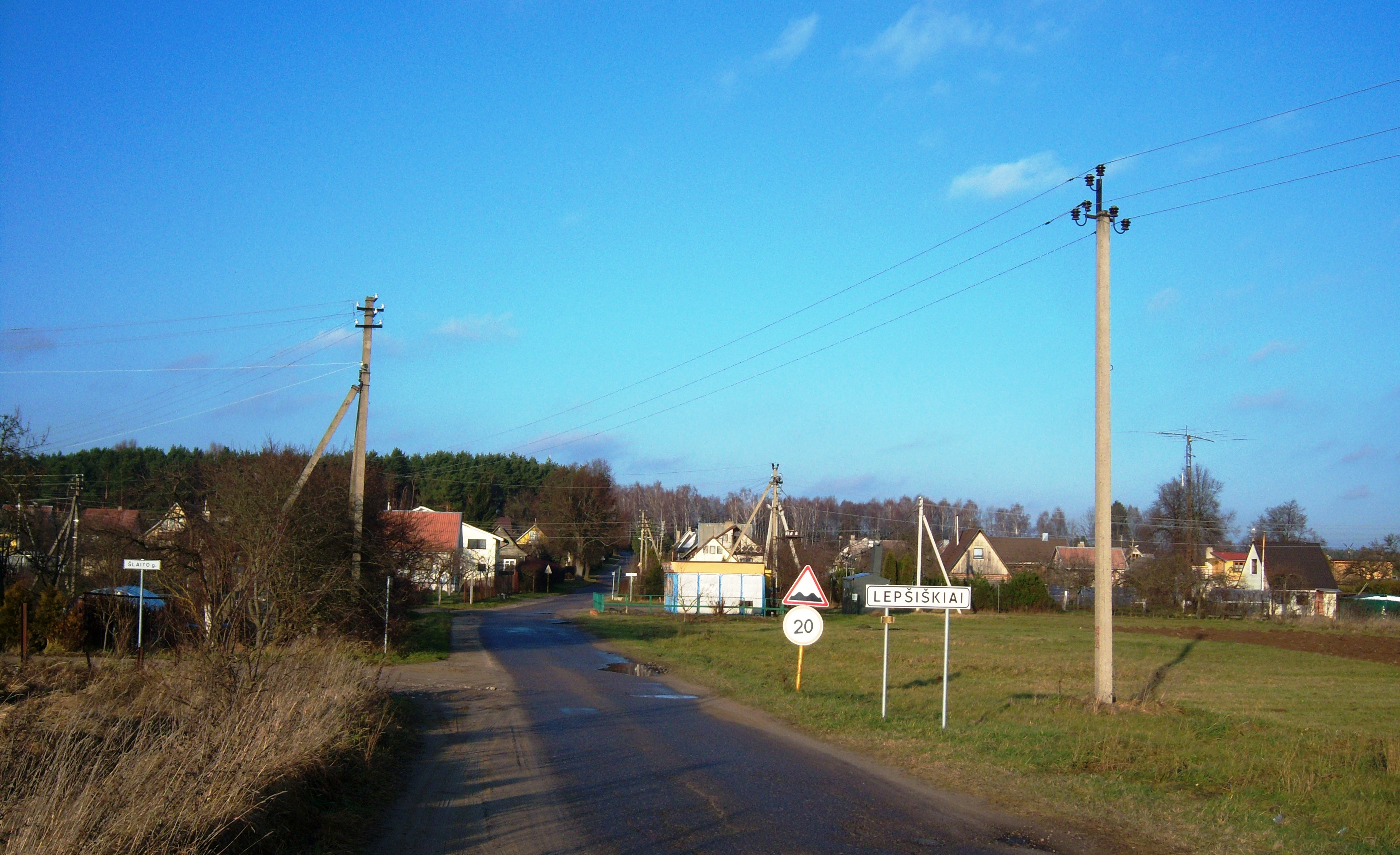 Lepšiškiai, Kaunas district, Lithuania